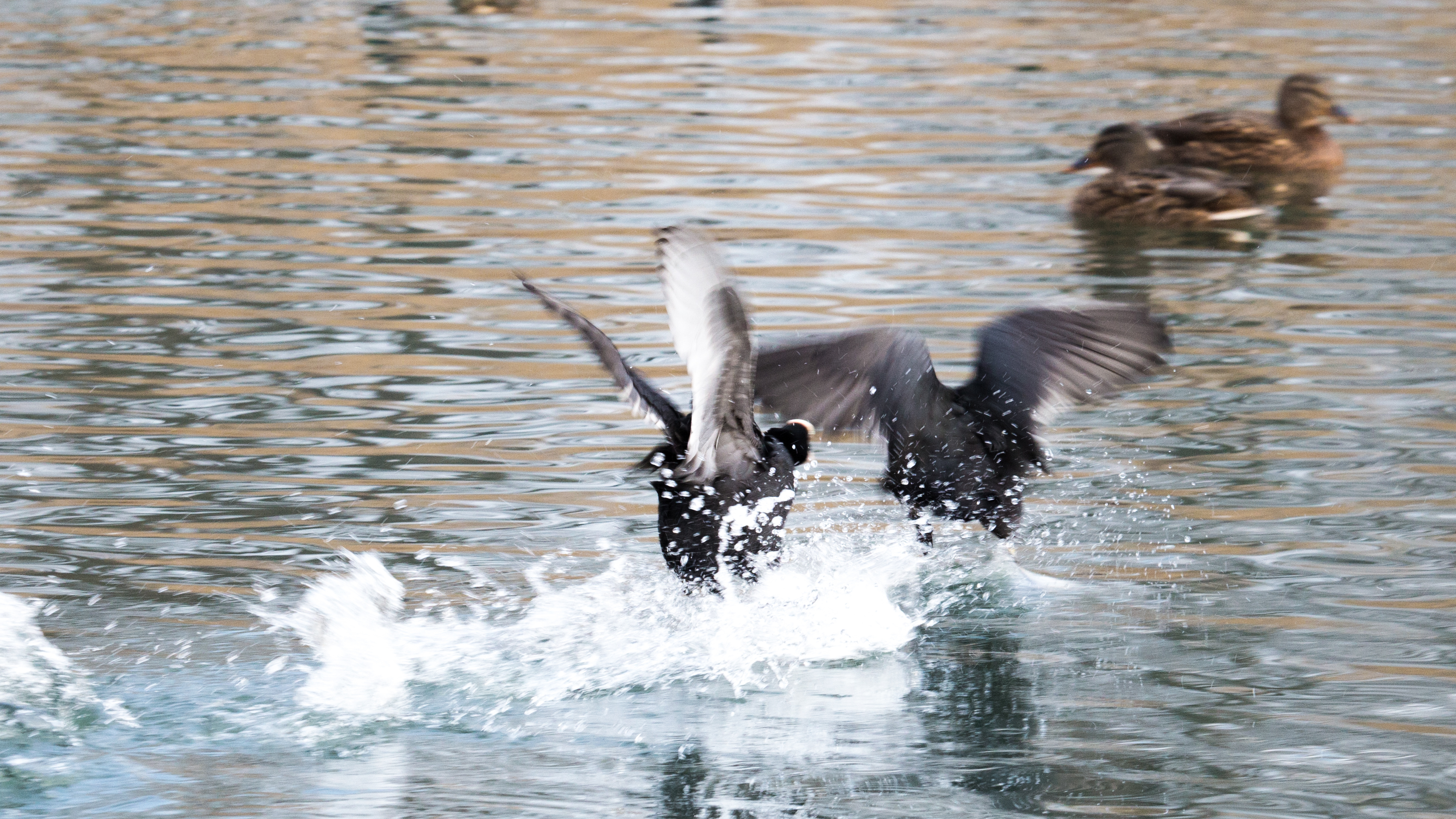 Fulica atra atra in Warsaw (Mokotów)